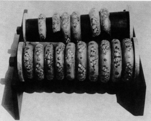 Giza Necropolis. Tomb of Hetepheres. Braclets in position and restored supports.